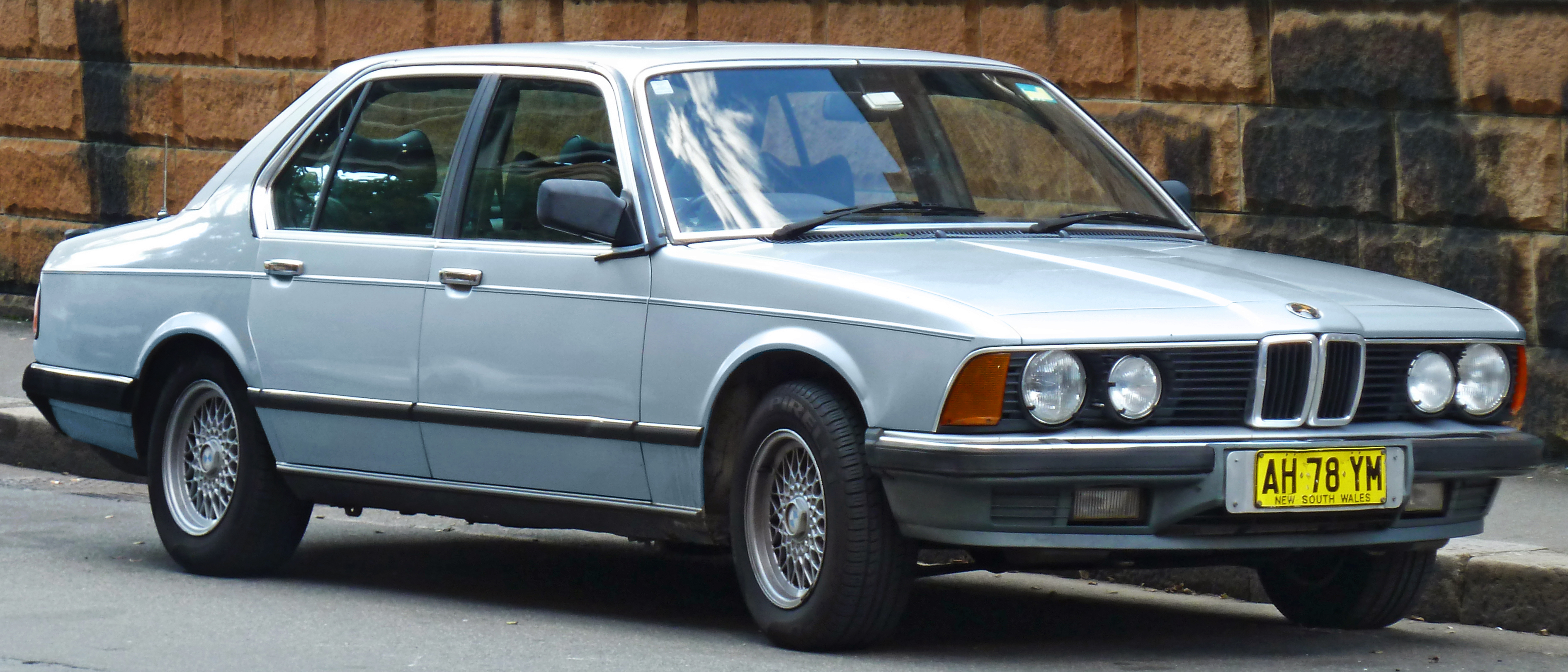 1985 BMW 735i (E23) sedan. Photographed in The Rocks, New South Wales, Australia.